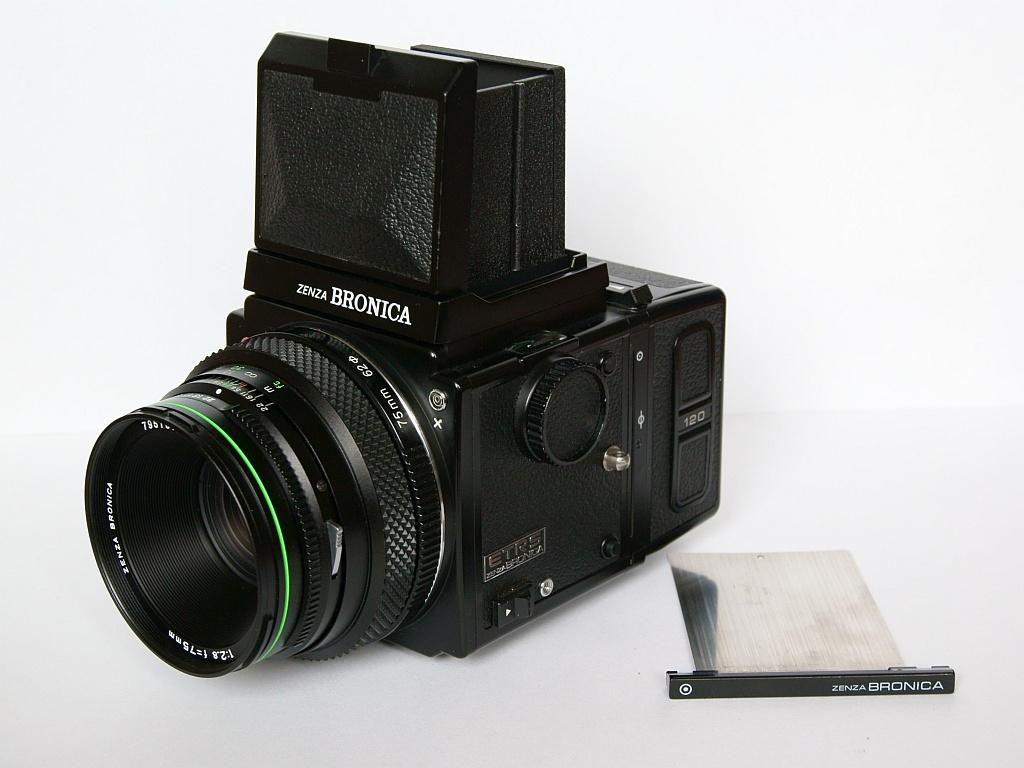 Other side of Bronica. For look from the right side, go here